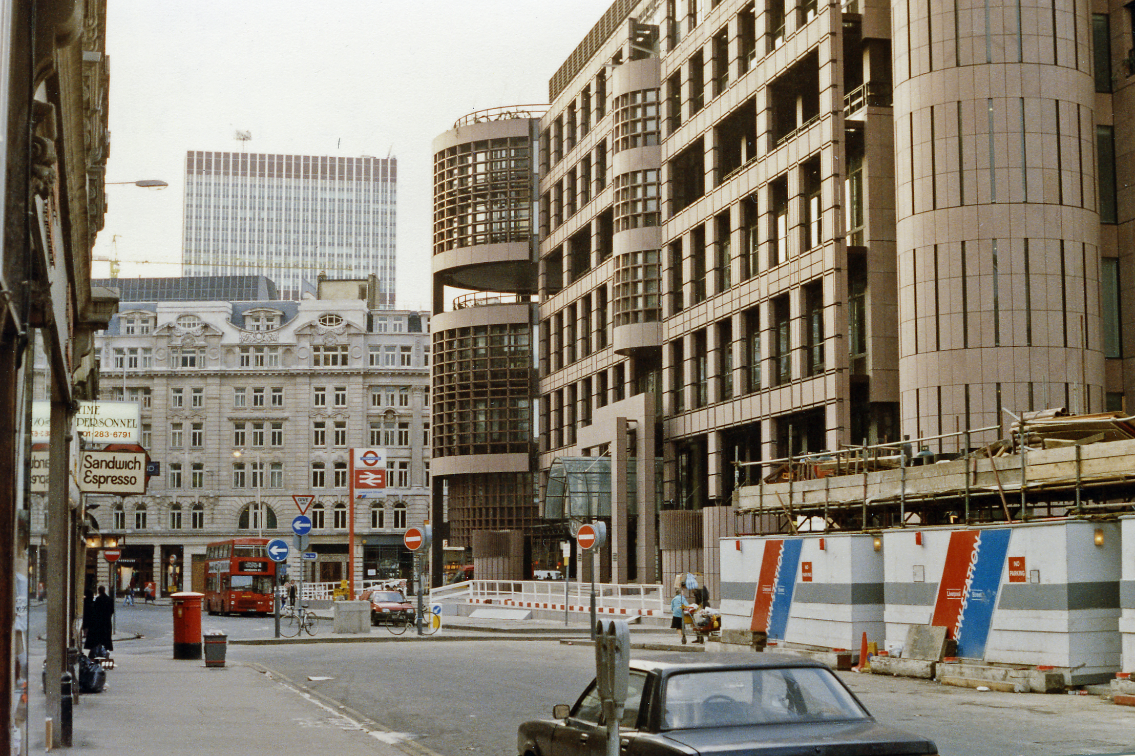 Site of former Broad Street station, 1989. View NW, westward along Liverpool Street to Broadgate Centre, built since closure of Broad Street station from 30/6/86.